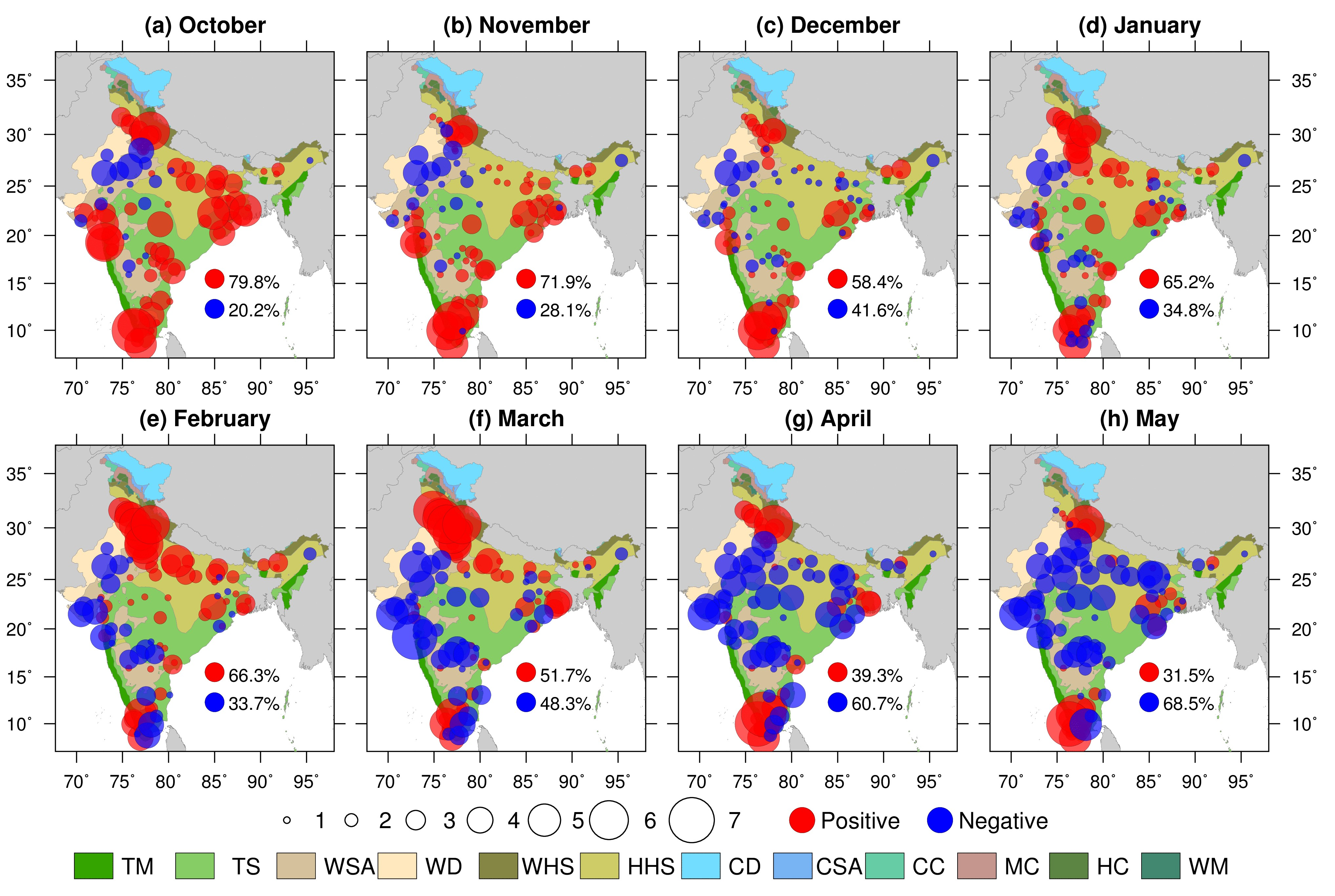 Monthly variation in day-time UHI in the pre and post-monsoon seasons in Indian cities. (a–d) Day-time UHI (°C) for the post-monsoon season (October–January), (e–h) day-time UHI for the pre-monsoon season (February–May). All the values were estimated for LST and NDVI data from MODIS Aqua sensor. The red and blue colours indicate positive and negative values of UHI. The size of the circles represents the intensities in °C.